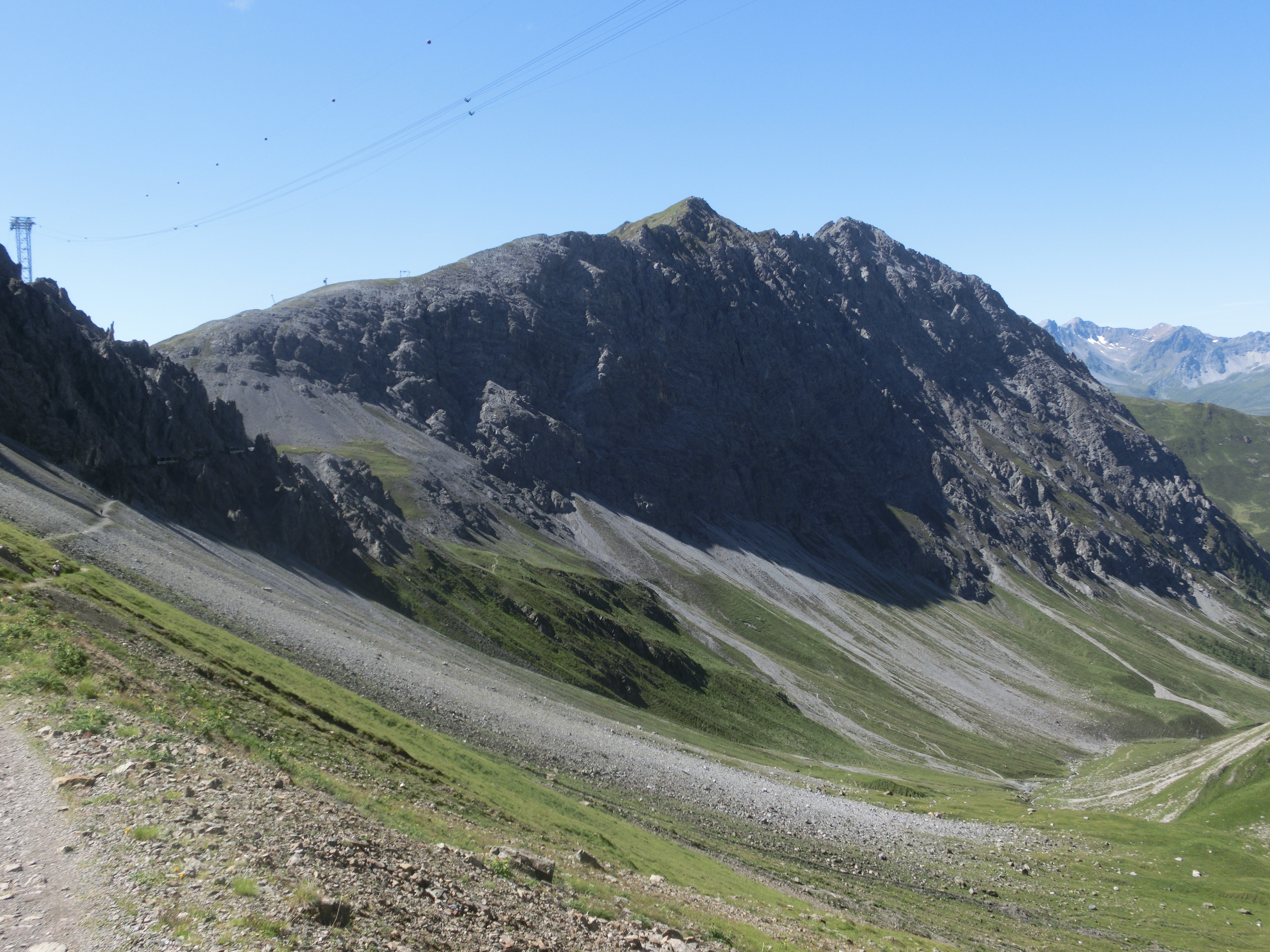 Strela (left) and Chüpfenflue (right), picture taken from Haupter Tälli, Arosa, Davos, Grison, Switzerland